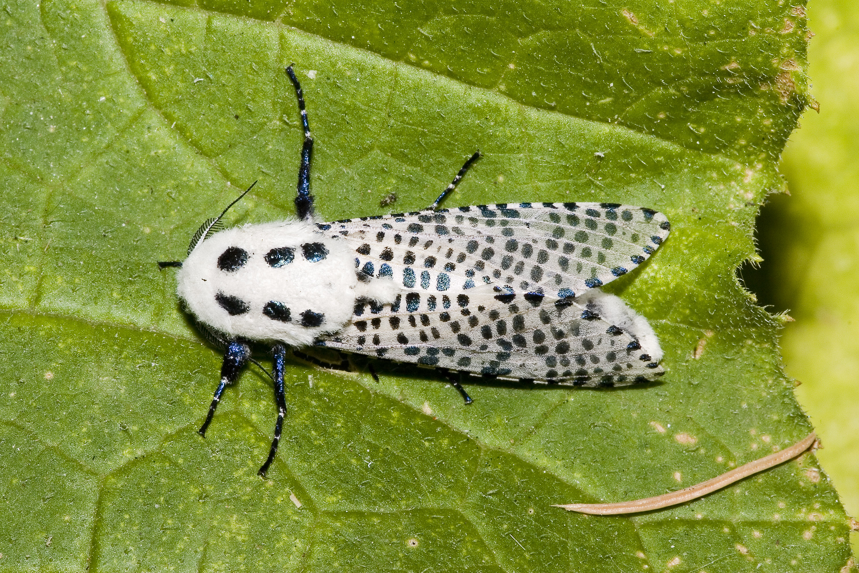 Leopard Moth